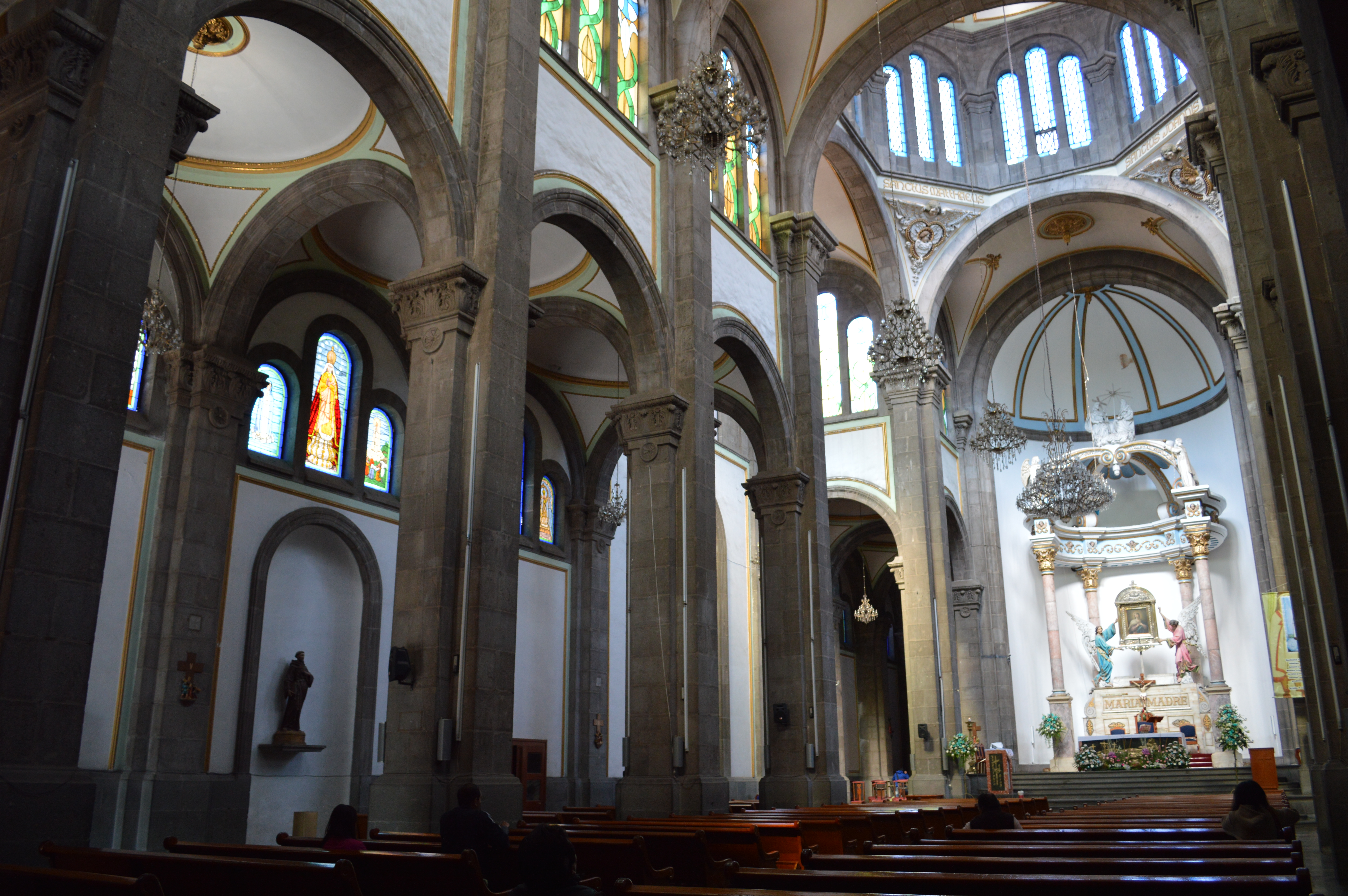 Looking towards main altar inside the Basílica de Nuestra Señora de las Misericordias in Apizaco, Tlaxcala, Mexico